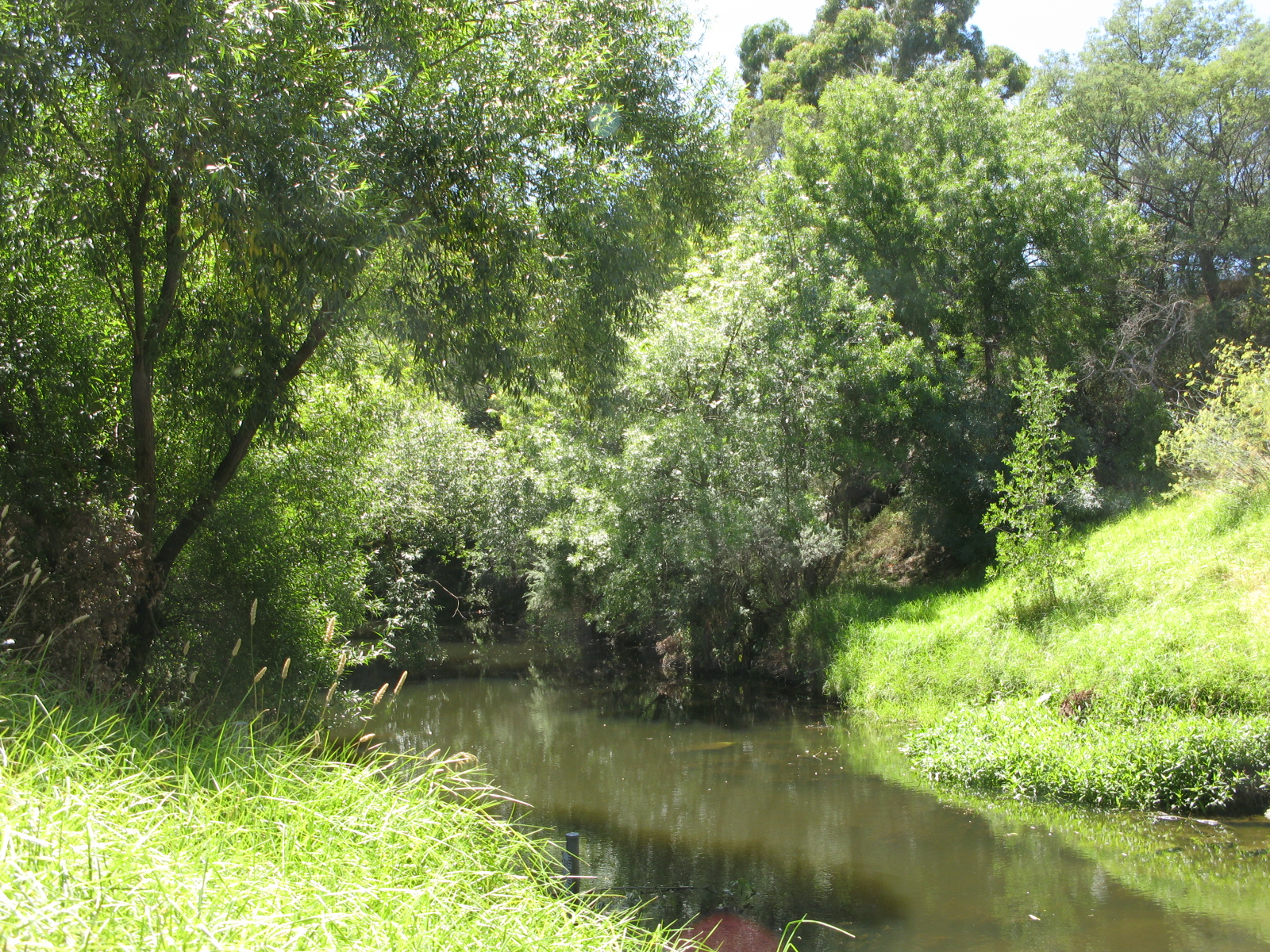 The Merri Creek, near Bell Street Bridge. Photo taken by myself in January 2009.